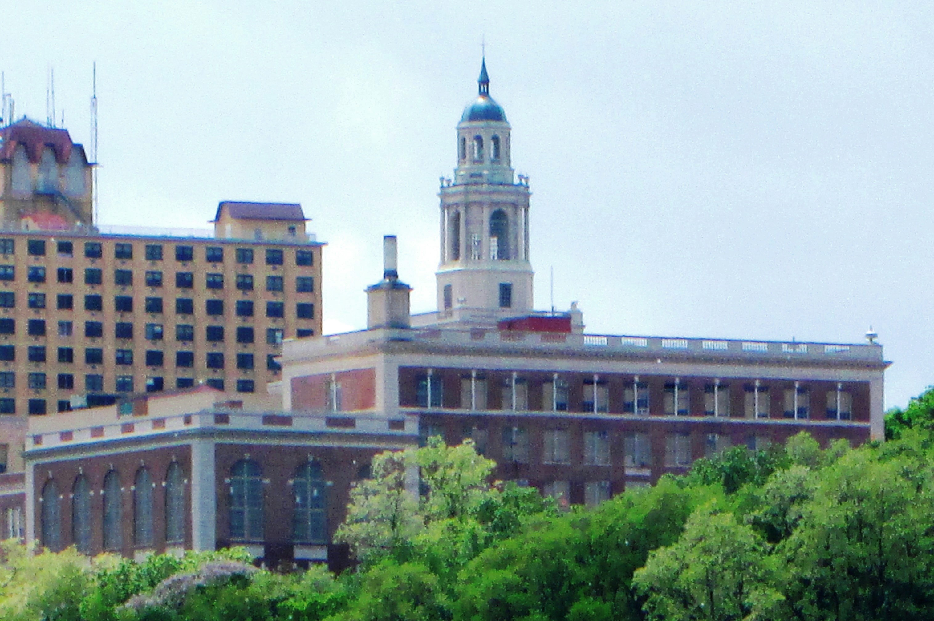 The George Washington Educational Campus is a facility of the New York City Department of Education located at 549 Audubon Avenue at West 193rd Street in the Fort George neighborhood of the Washington Heights area of Manhattan, New York City. The building was opened on February 2, 1917 as an annex of Morris High School in the Bronx. George Washington High School was founded in 1919, and moved into the building in 1925. It was known by that name until 1999, when the building was divided into the four small schools. High School for Media and Communications (M463) College Academy, formerly the High School for International Business and Finance (M462) High School for Health Careers and Sciences (M468) High School for Law and Public Service (M467)